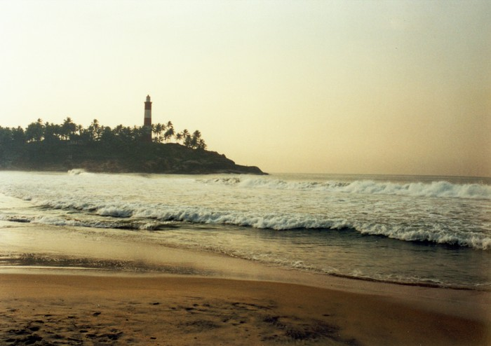 the clear Kovalam beach in Thiruvananthapuram in Kerala. It is at the southern tip of the Malabar Coast, in South India.